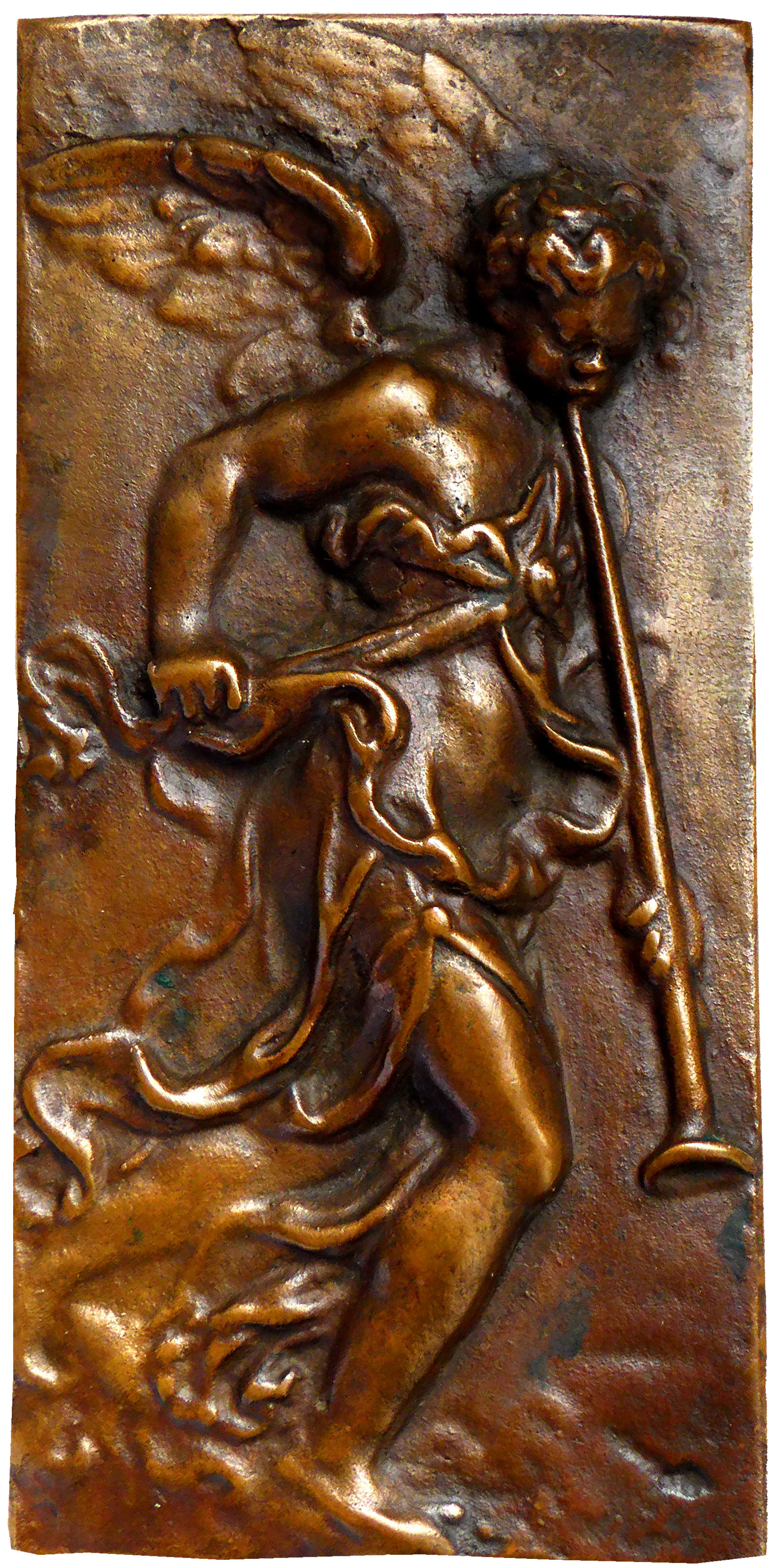 Angle with Busine, Bronze Plaque, 11,3 x 5,5 cm,19th century, dedicated to Eva Halbreiner